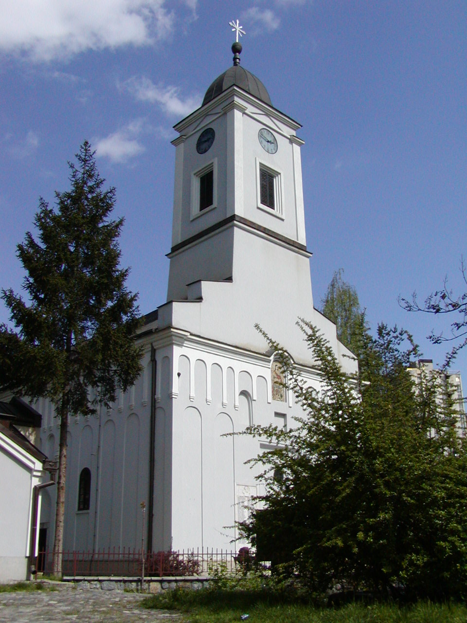 Uzice, Serbia - The church of St. George